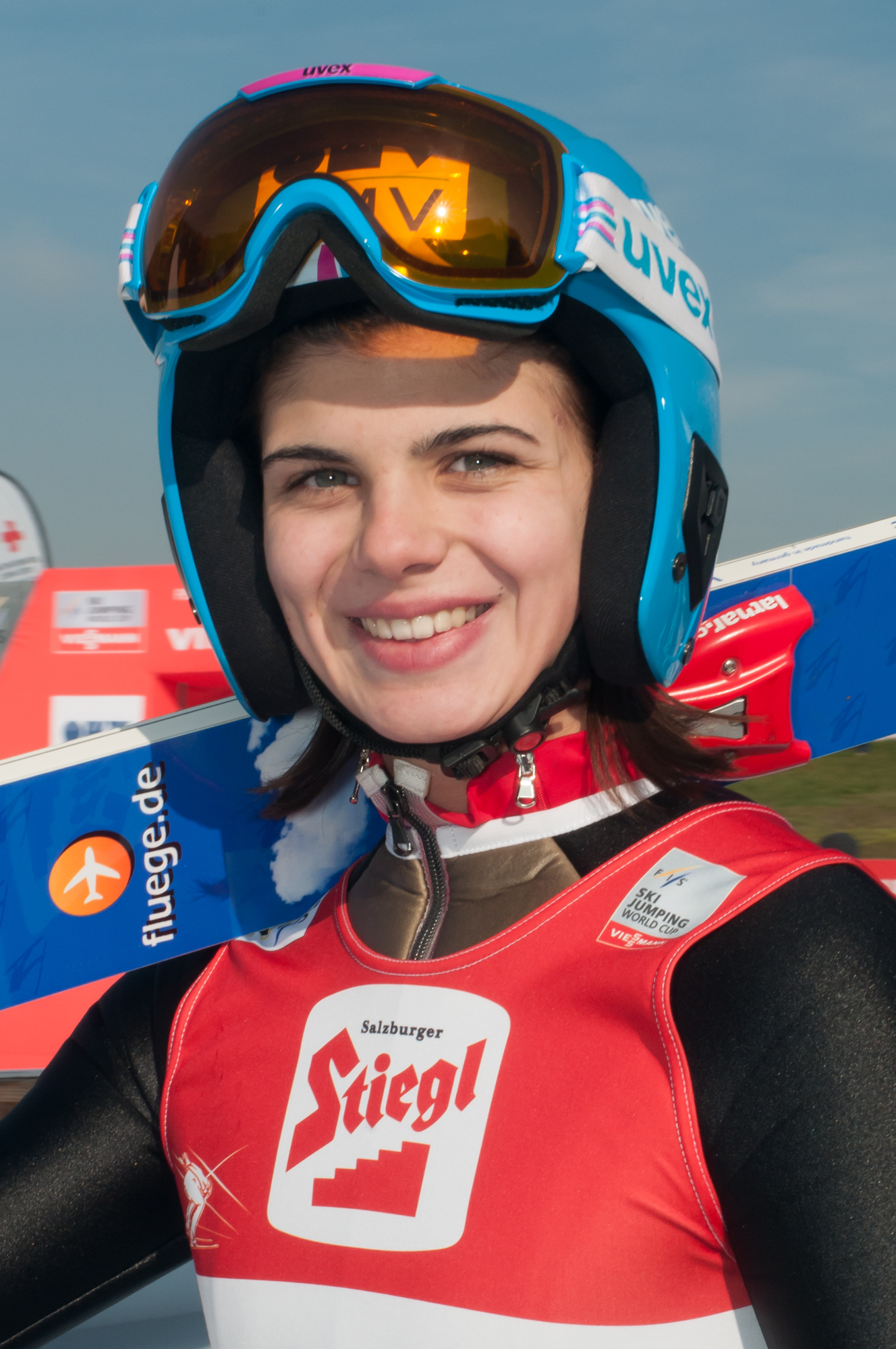 FIS Ski Jumping World Cup Ladies Hinzenbach 2016-02-07